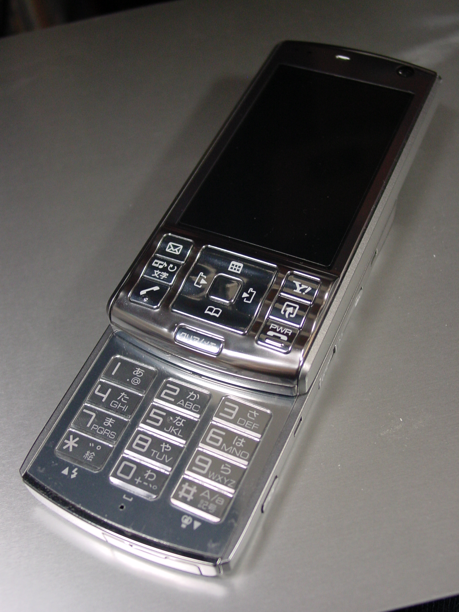 SoftBank Mobile 911T mobile phone by Toshiba, Silver.